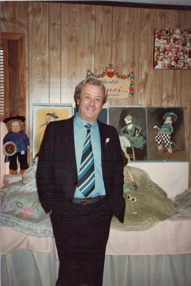 Beppe Garella (?-3 September 1992), owner of Lenci (doll makers factory) from 1942 to 1992